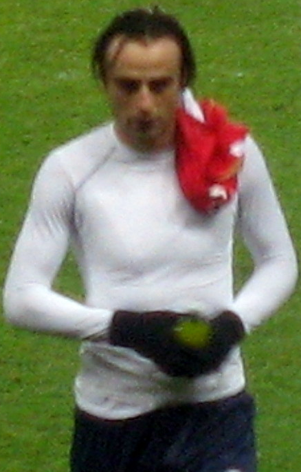 Dimitar Berbatov. Image cropped from original at flickr.